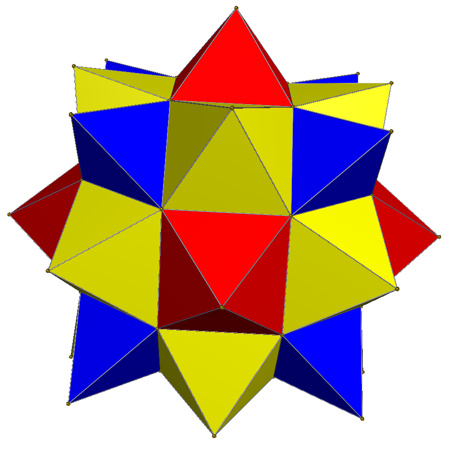 Pyramids augmented to central rhombicuboctahedron